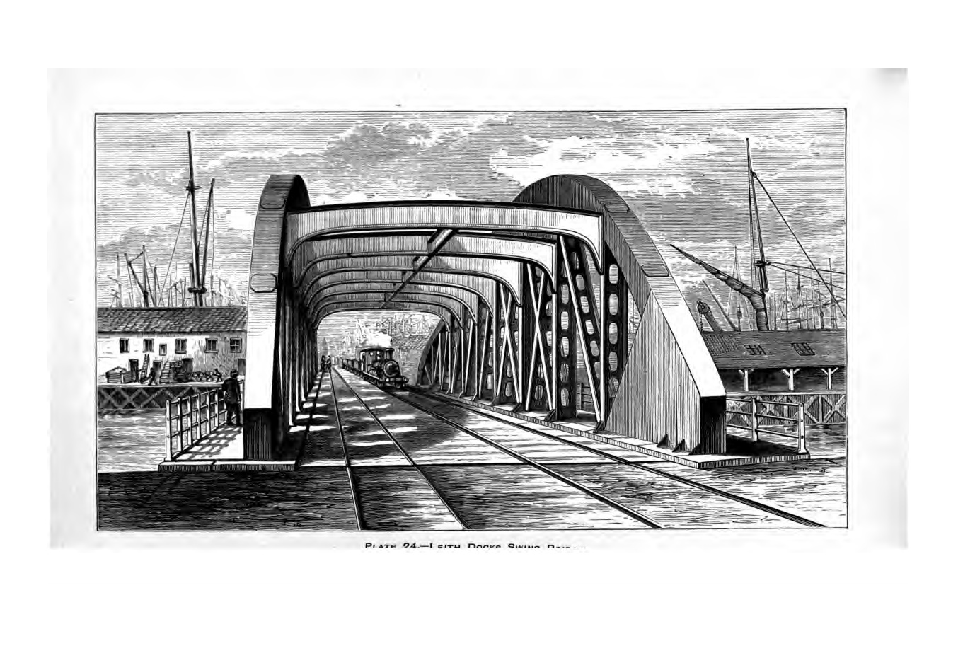 Image from "Girder-making and the practice of bridge building in wrought iron" (1879) by Edward Moss Hutchinson - the book contains examples which were made at the "Skerne Iron Works" of Darlington - quote from the preface, p.vi Restricted as the notice altogether is to such works as have been executed at, or in connection with, the Skerne Iron Works, the several types of Girder-bridge are not, perhaps, so fully represented as they would otherwise have been; but they will no doubt, for the present purpose be found sufficiently varied and numerous.